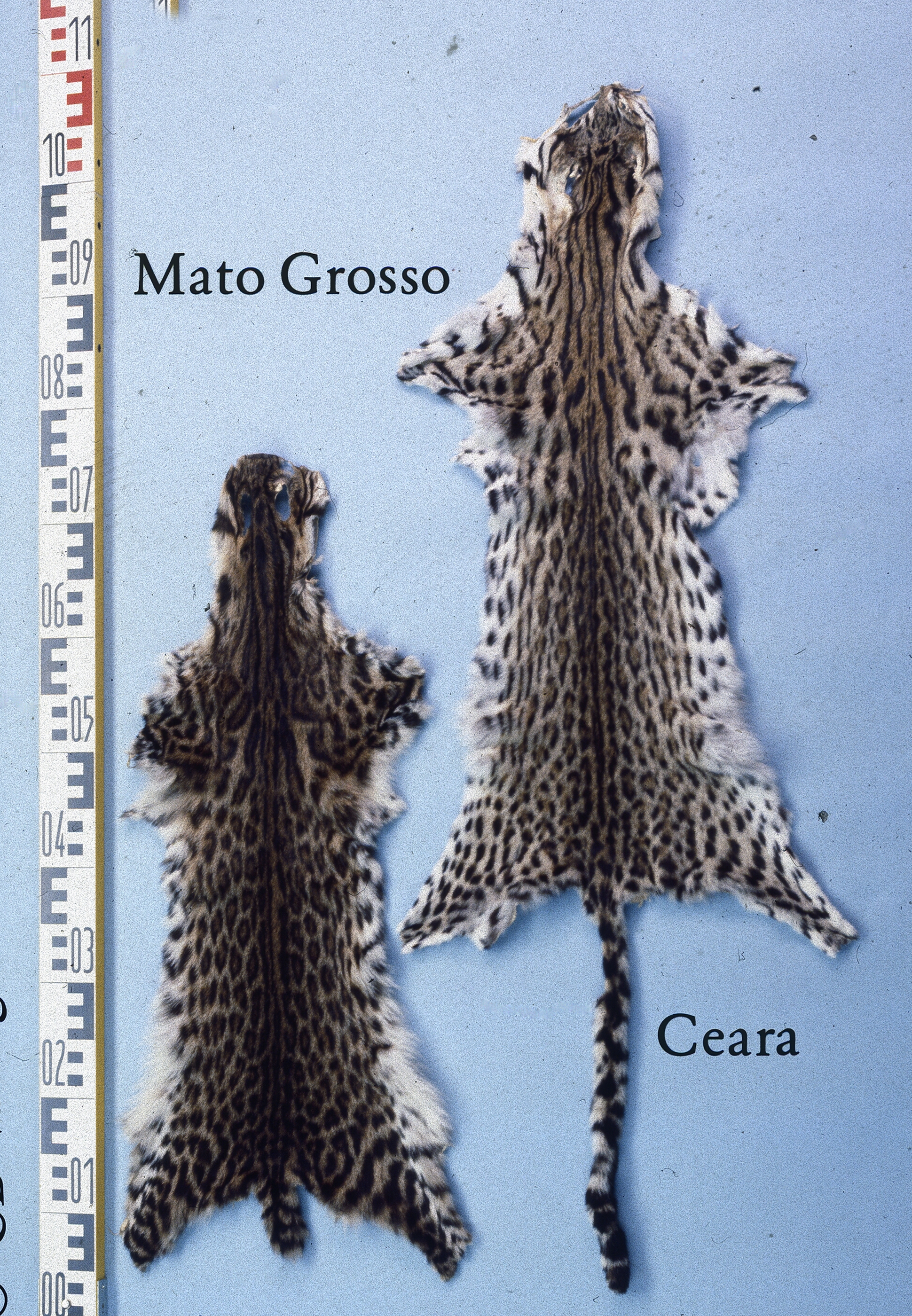 Tiger cat fur skin, Mato Grosso and Ceara (Leopardus tigrinus). Fur skin collection, Bundes-Pelzfachschule, Frankfurt/Main, Germany